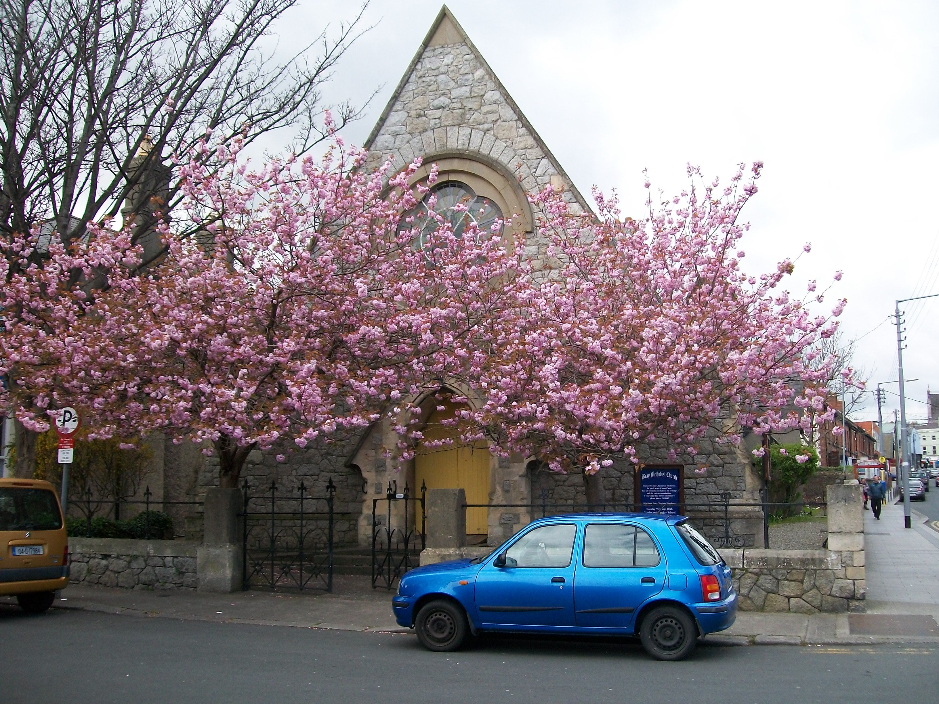 Bray Methodist Church, Eglinton Road, April 2012.